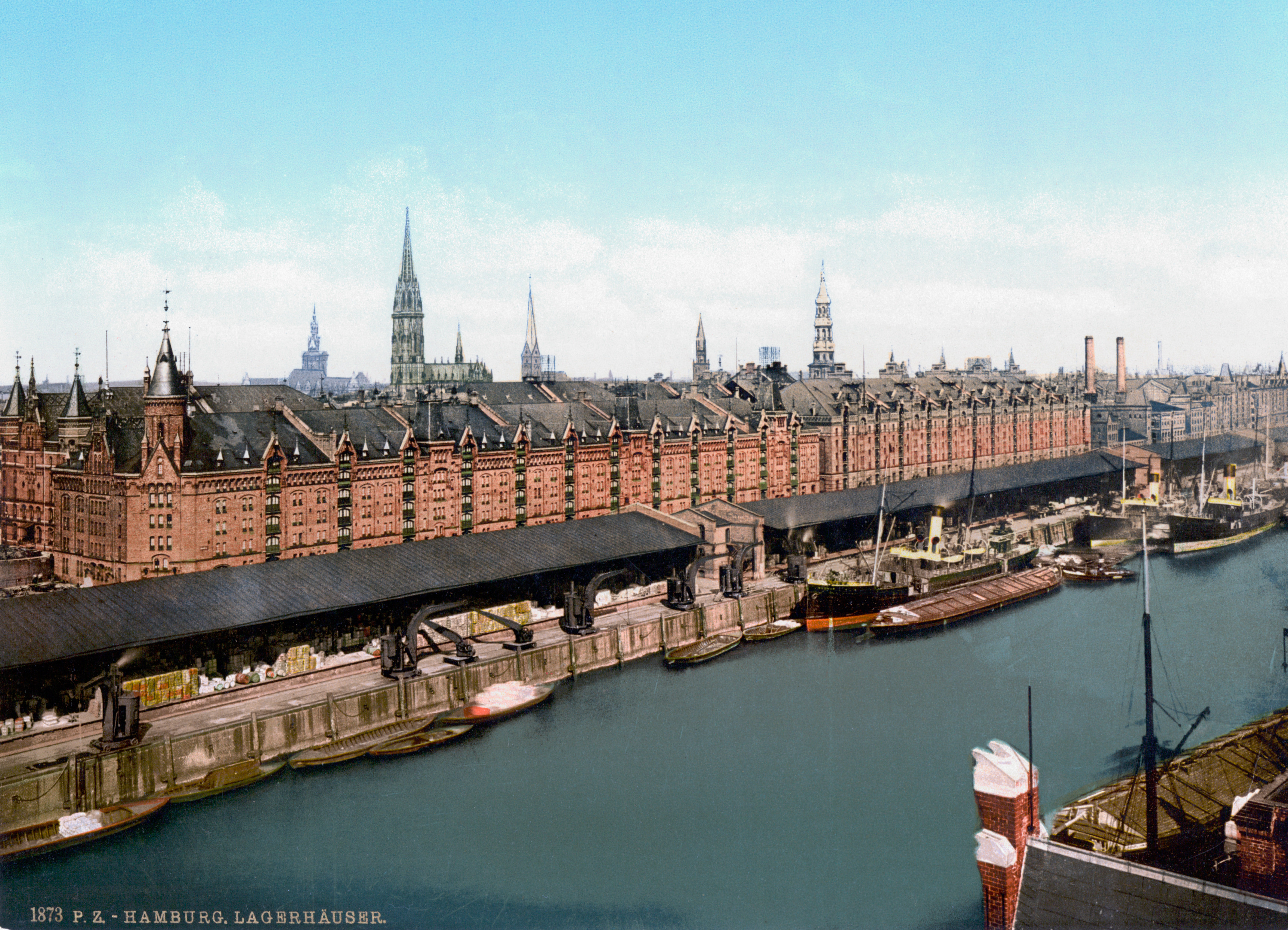 The Speicherstadt in Hamburg around 1890.This is a photograph of an architectural monument.